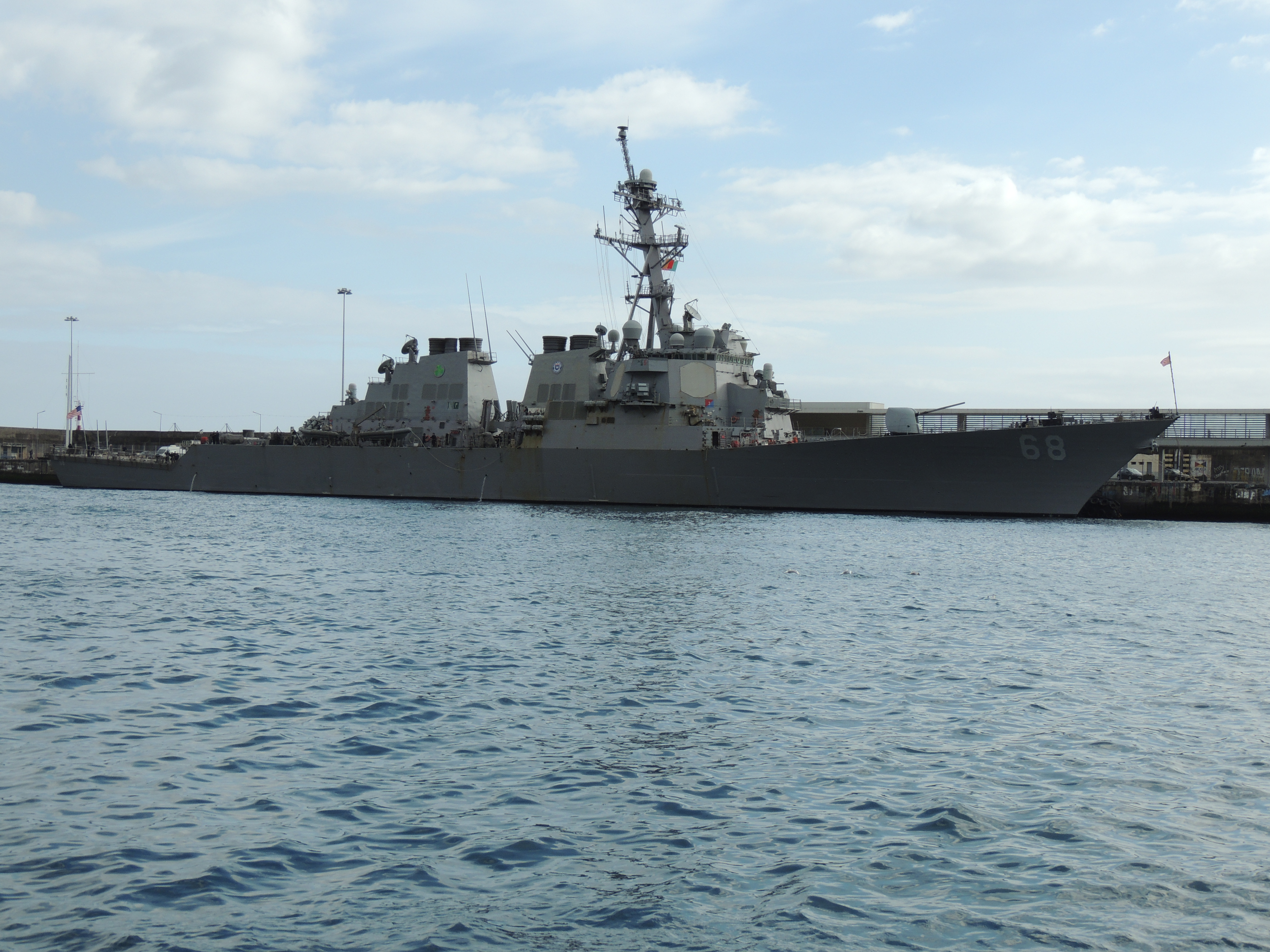 USS The Sullivans, port of Funchal, Madeira Island, Portugal February 2016